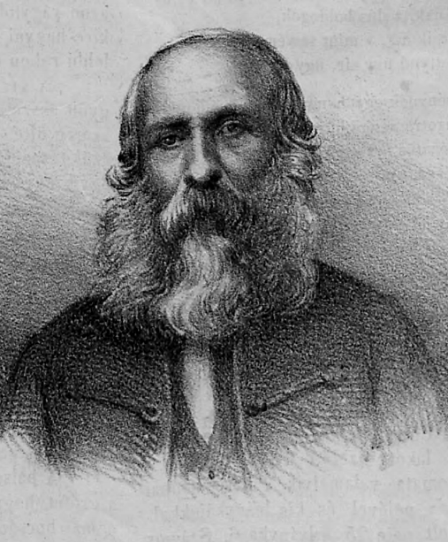 Portrait of Boronkay Lajos